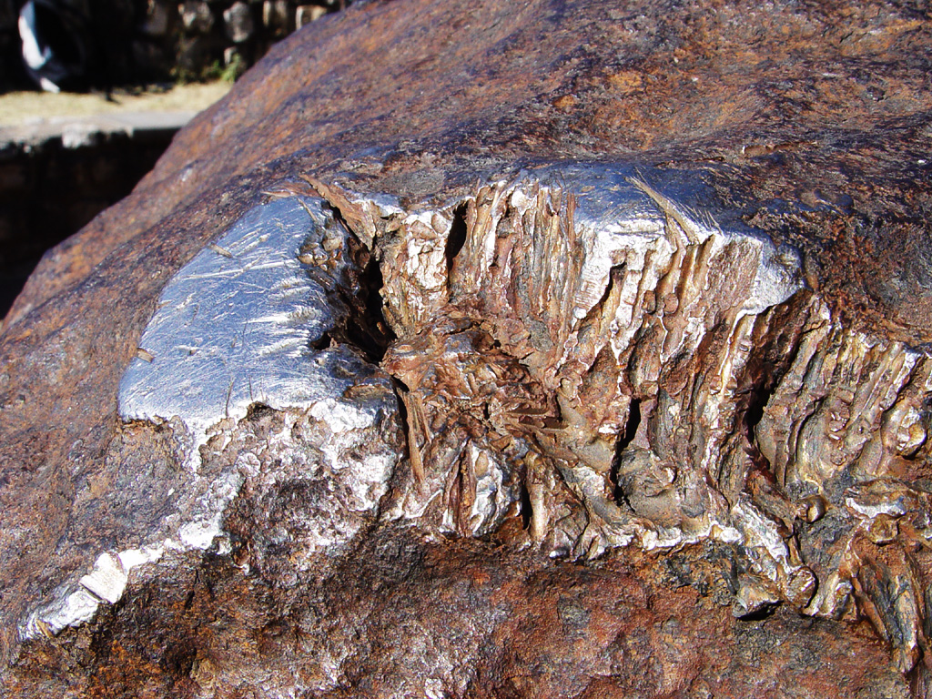 The Hoba meteorite is the largest known meteorite found on Earth, as well as the largest naturally-occurring mass of iron known to exist on the earth. The meteorite, named after the Hoba West Farm in Grootfontein, Namibia where it was discovered in 1920, has not been moved since it landed on Earth over 80,000 years ago. ( via Wikipedia )